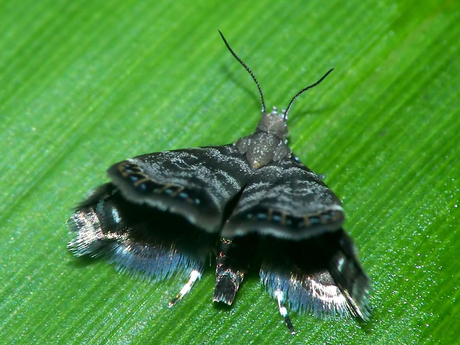 Brenthia sp. near to catenata in Hong Kong